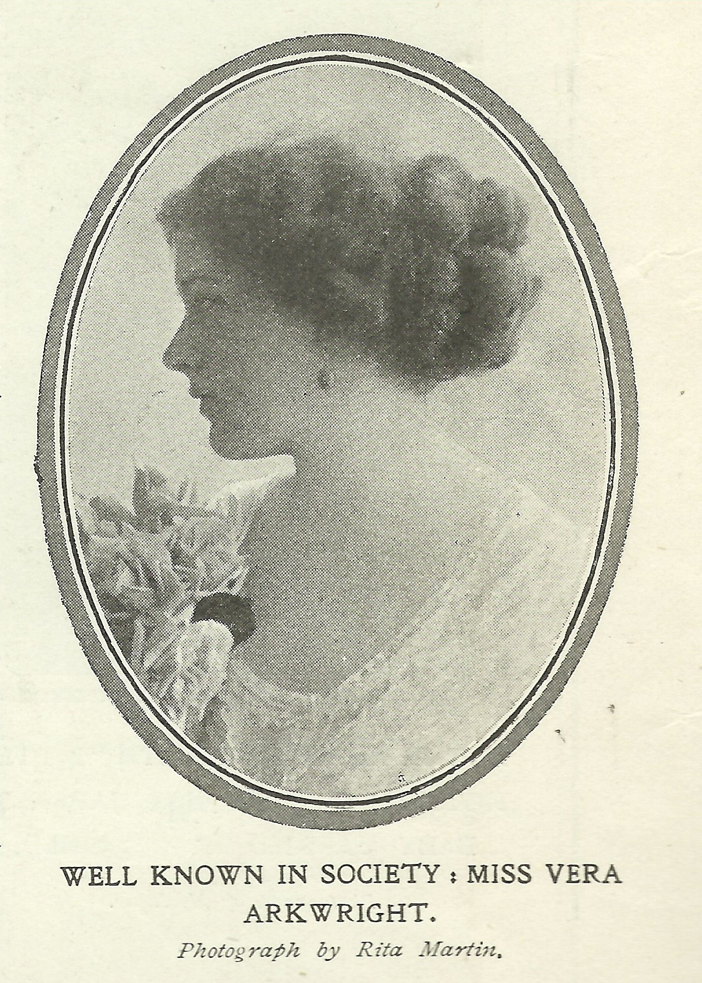 Vera Bate Lombardi (Vera Nina Arkwright), 'Well known in society', 'The Sketch', 1909